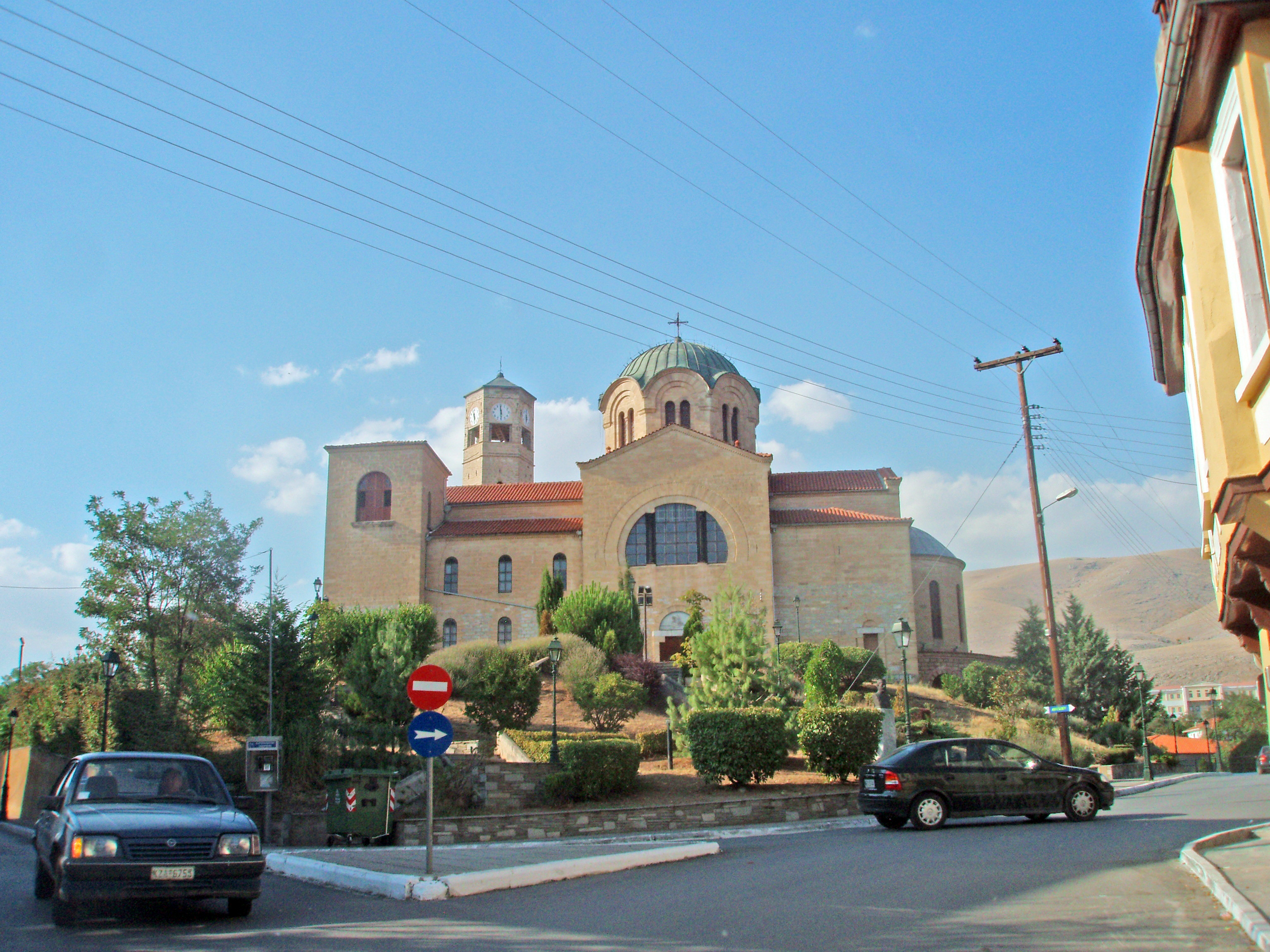 Main church in Siatista, Kozani prefecture, Macedonia, Greece.